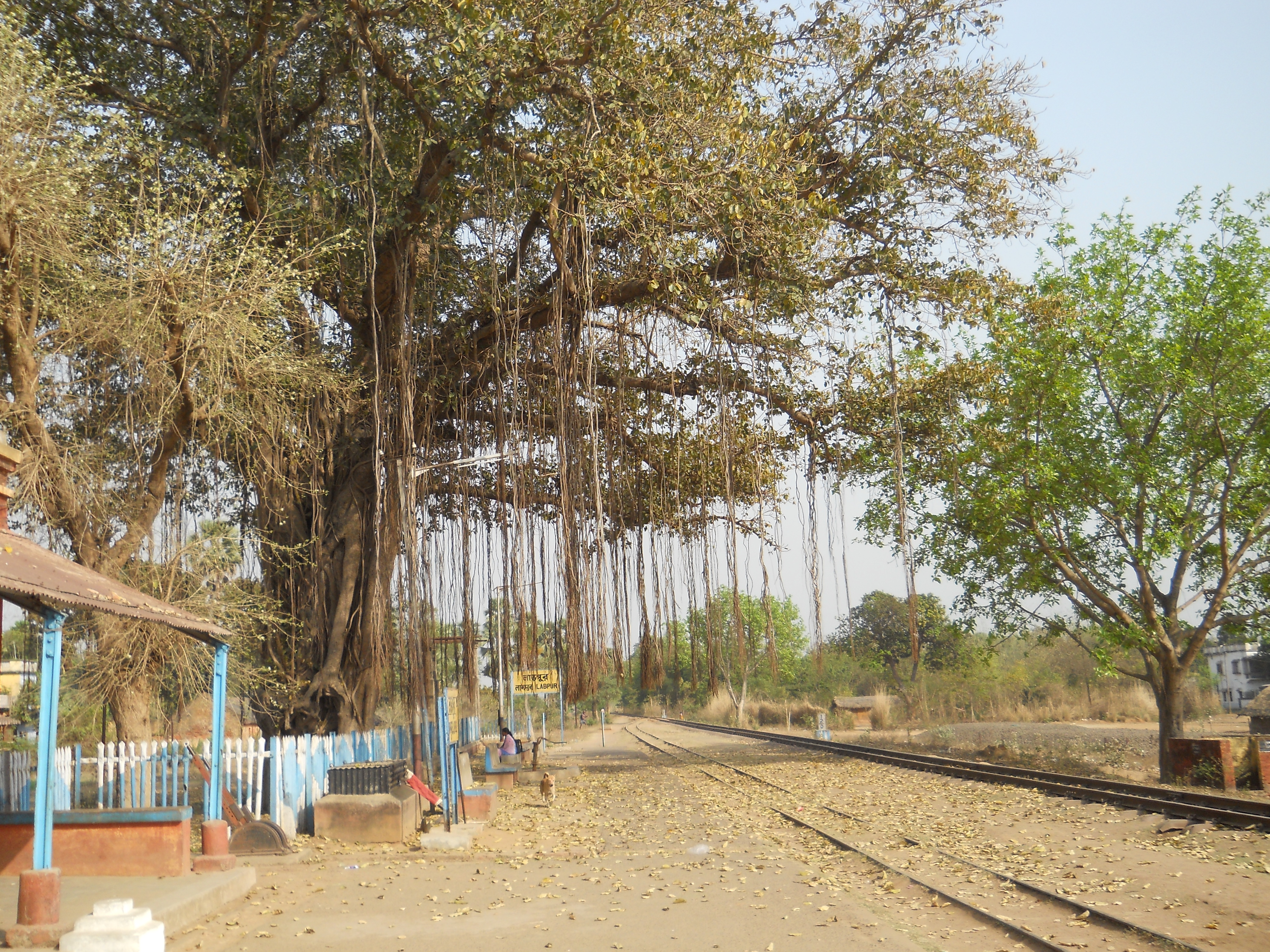 Katwa to Ahmedpur Narrow gaugue railway, Labhpur railway station, Birbhum.